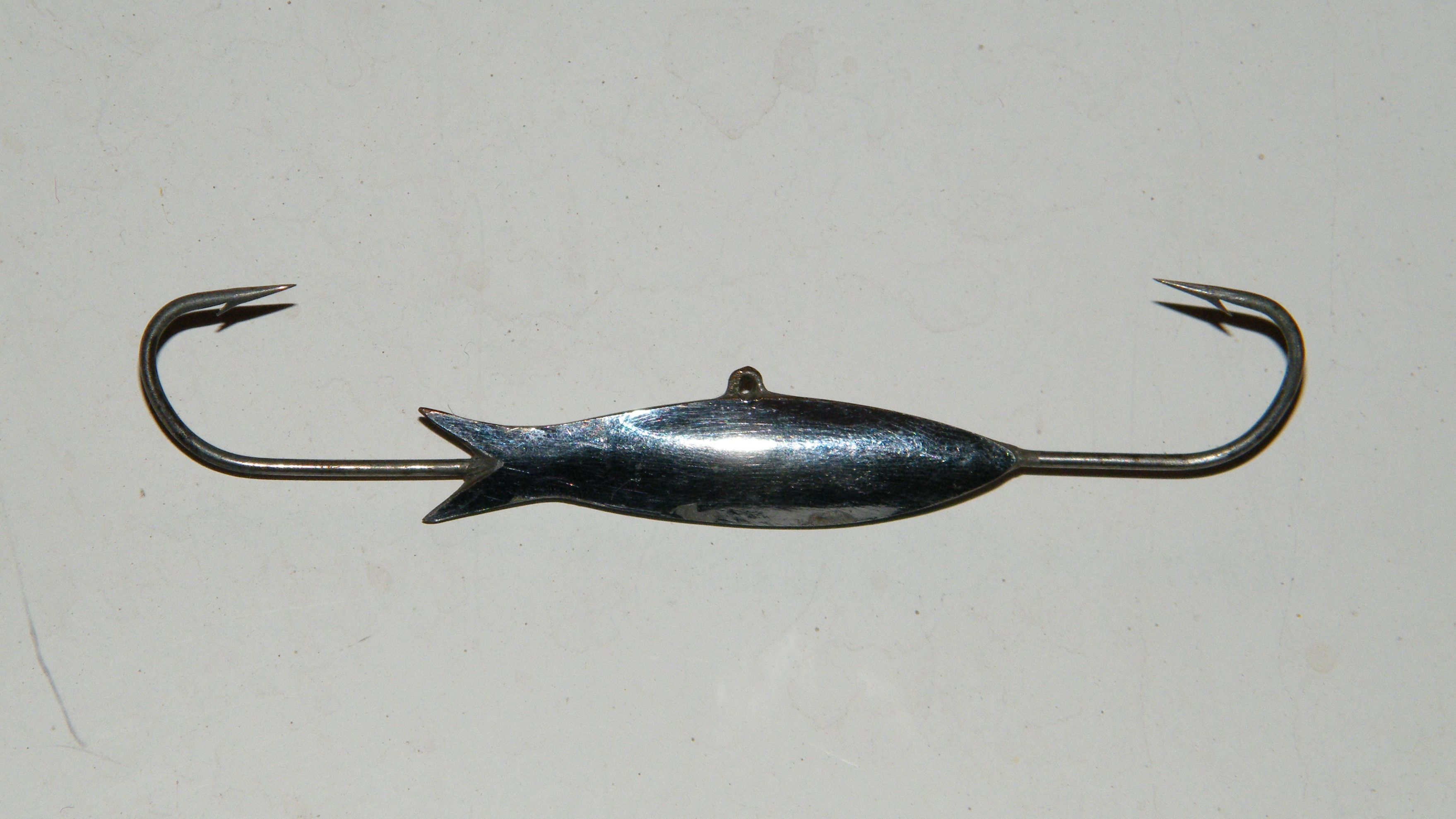 Fishing lure